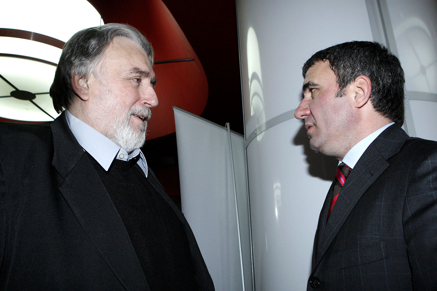 Gheorge Hagi with Adrian Paunescu